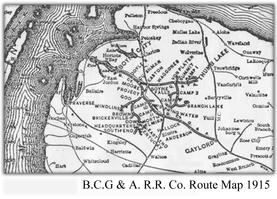 Boyne_City_Railroad- Route map of the railroad 1915 historical state of michigan railroad map